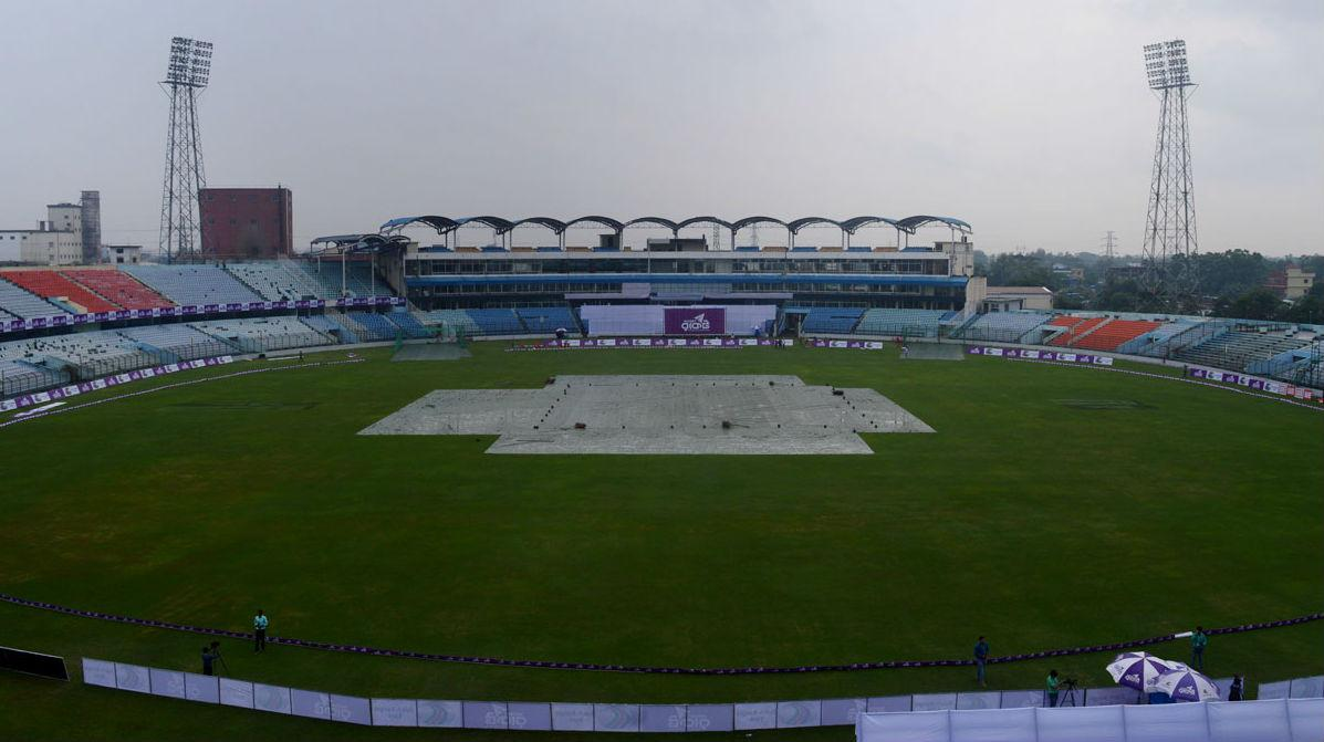 ZACS RAIN COVERED